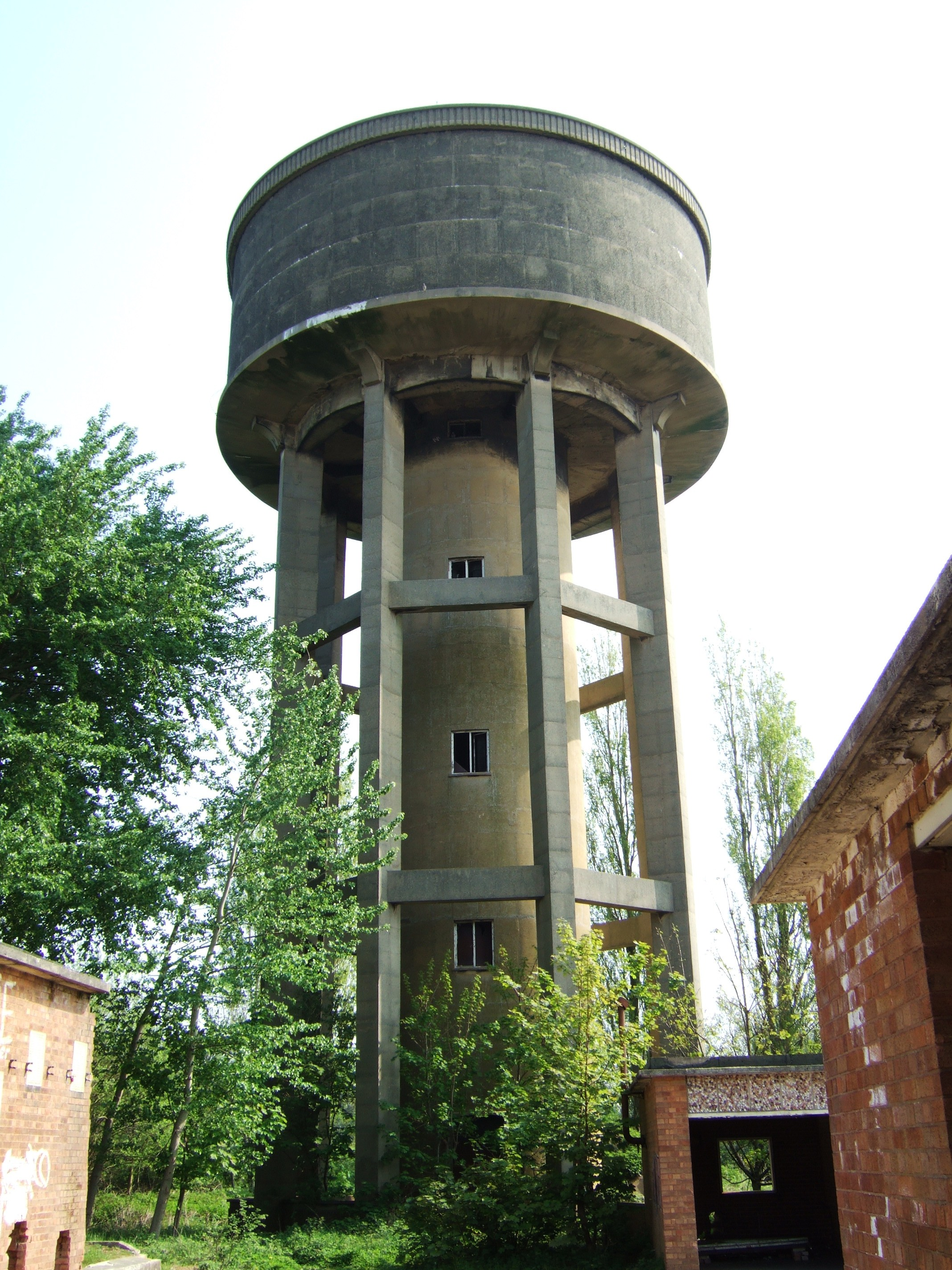 Disused water tower at Greaves Hall, in Banks, Lancashire.